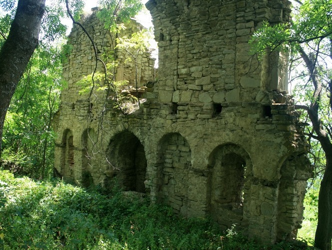 Medieval ruins at Cheremi, Kakheti, Georgia